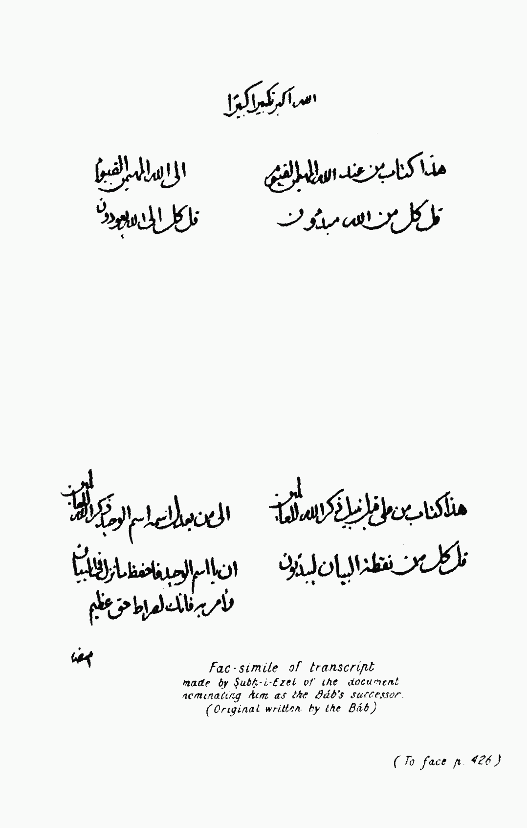 Facsimile: Transcript by Subh-i-Azal of the document nominating him as the successor to the Báb. For more information about this subject, see Bahá'í/Bábí split.